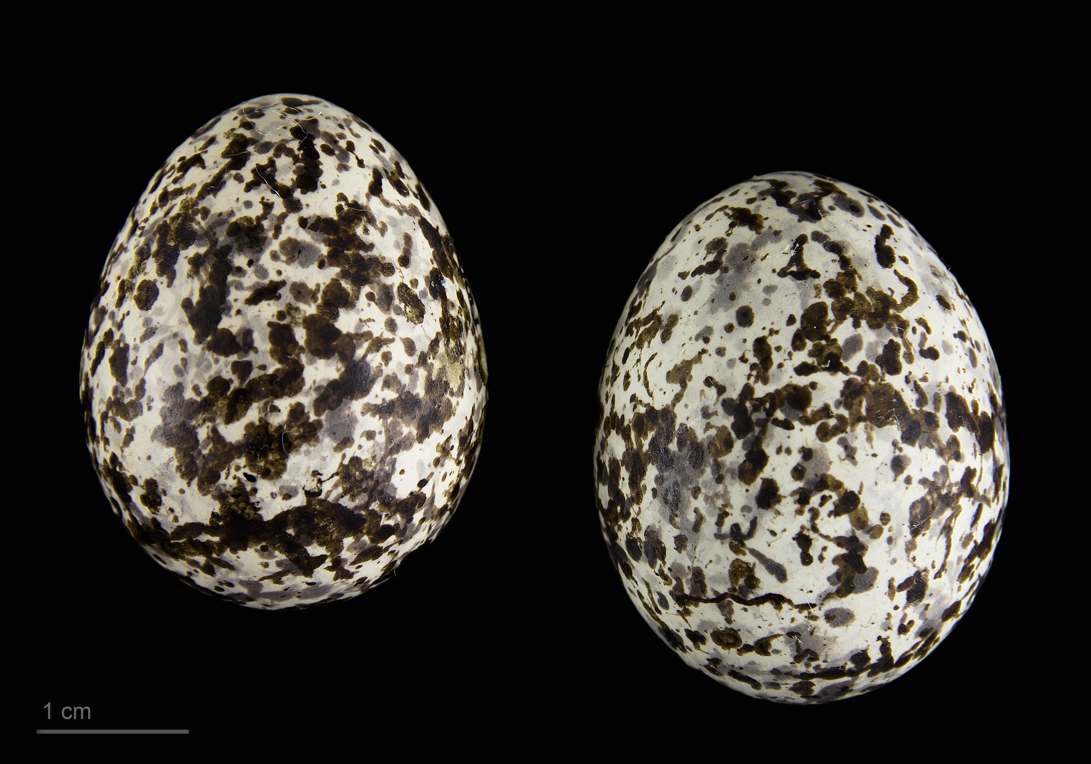 Eggs of collared pratincole Two specimens of the same spawn ; collection of Jacques Perrin de Brichambaut.